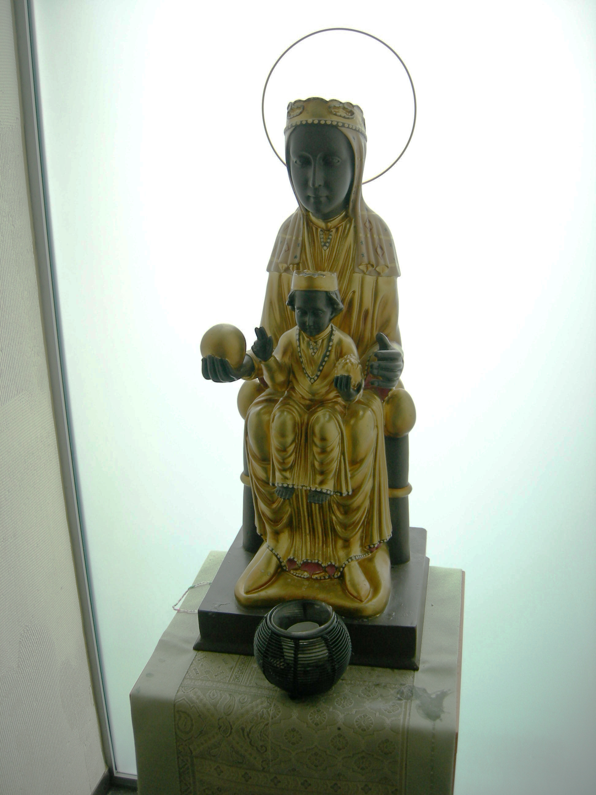 Black Madonna, Chapel of St. Ignatius, Seattle University. Some color mapping has been done on this photo, using Picture Publisher.